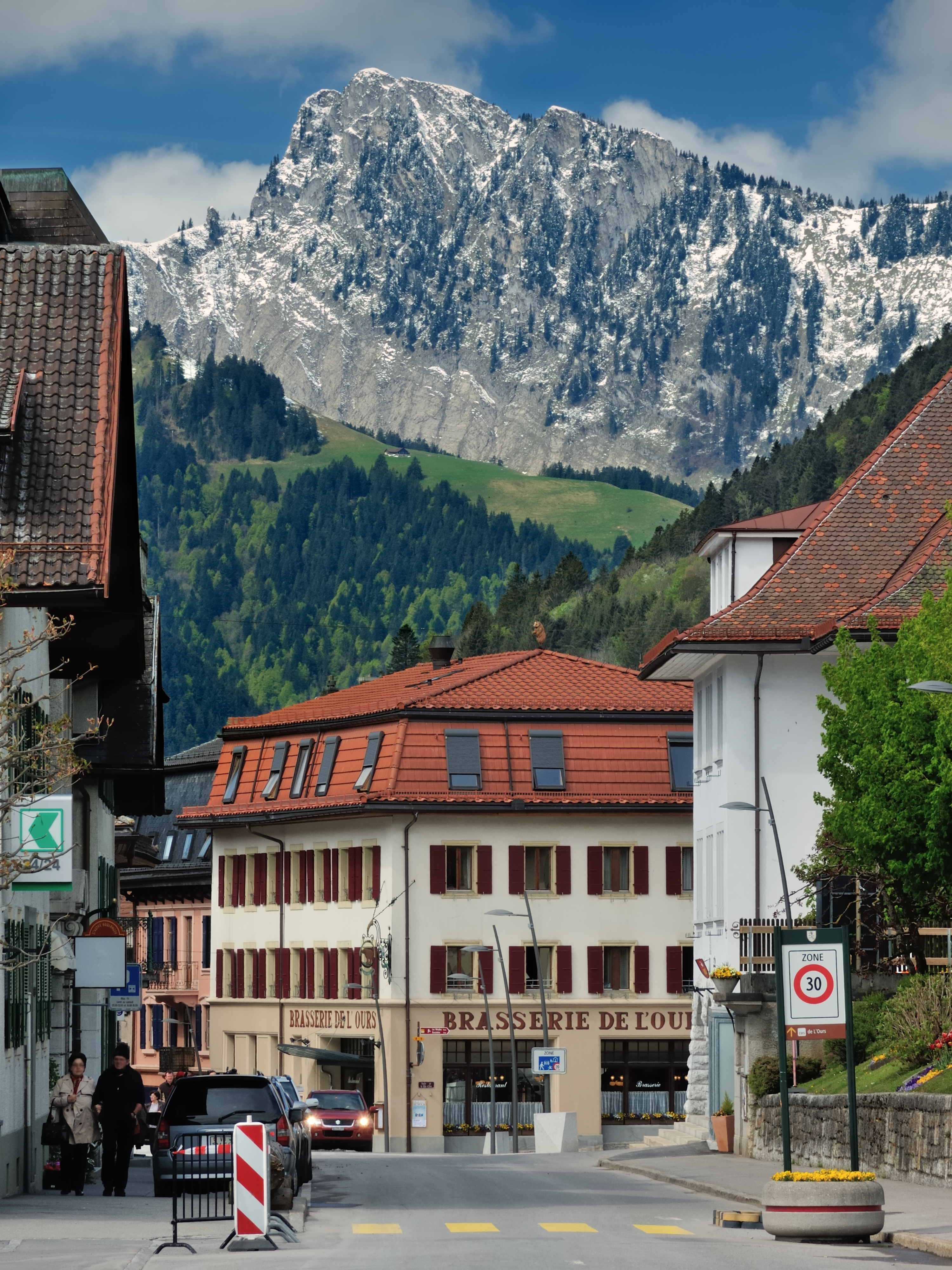 Grand Rue, Château-d'Oex